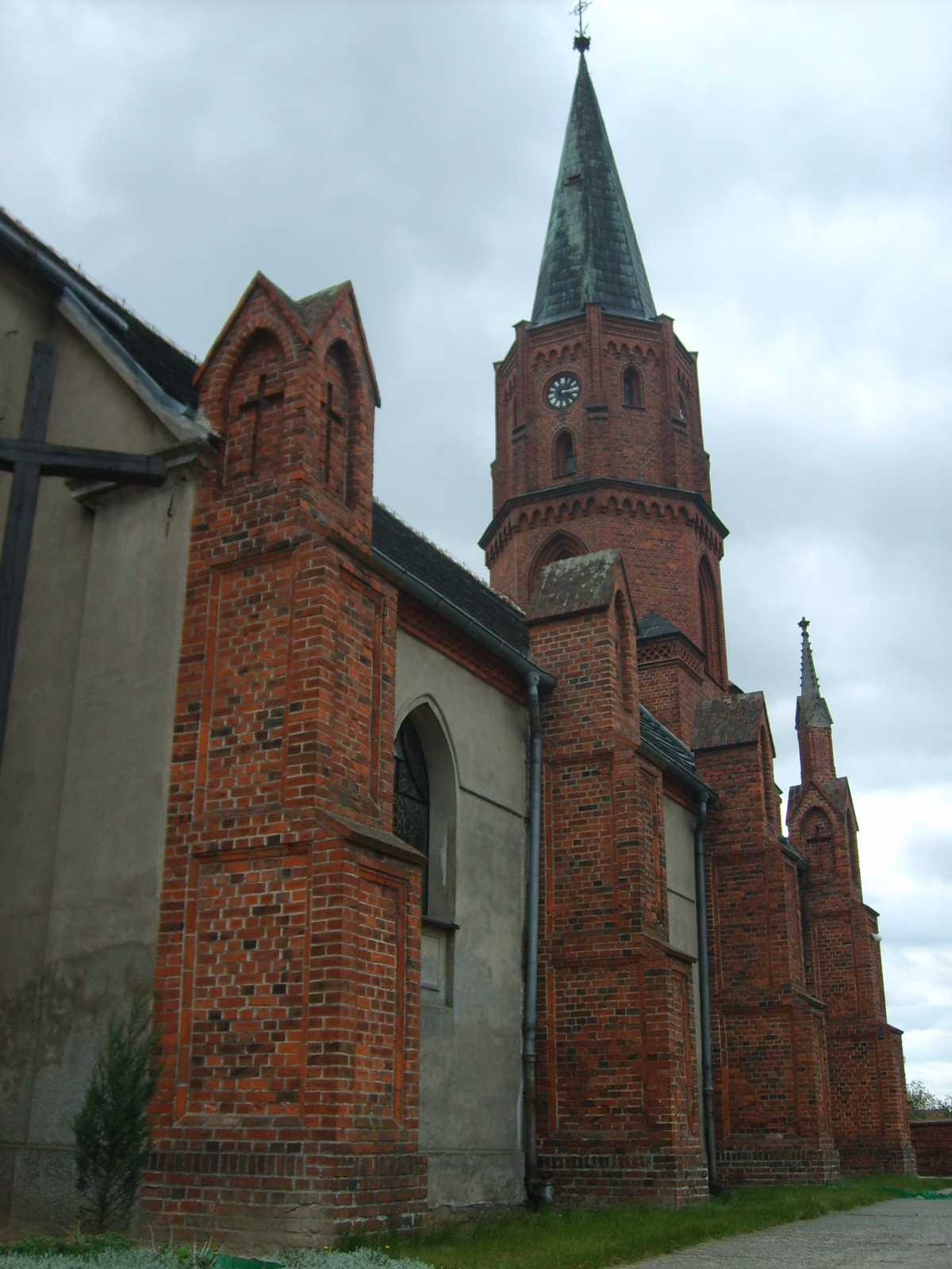 St. Michael Archangel Roman-Katolic Church in village Chwałkowo Kościelne in Poland, in Greater Poland Voivodeship